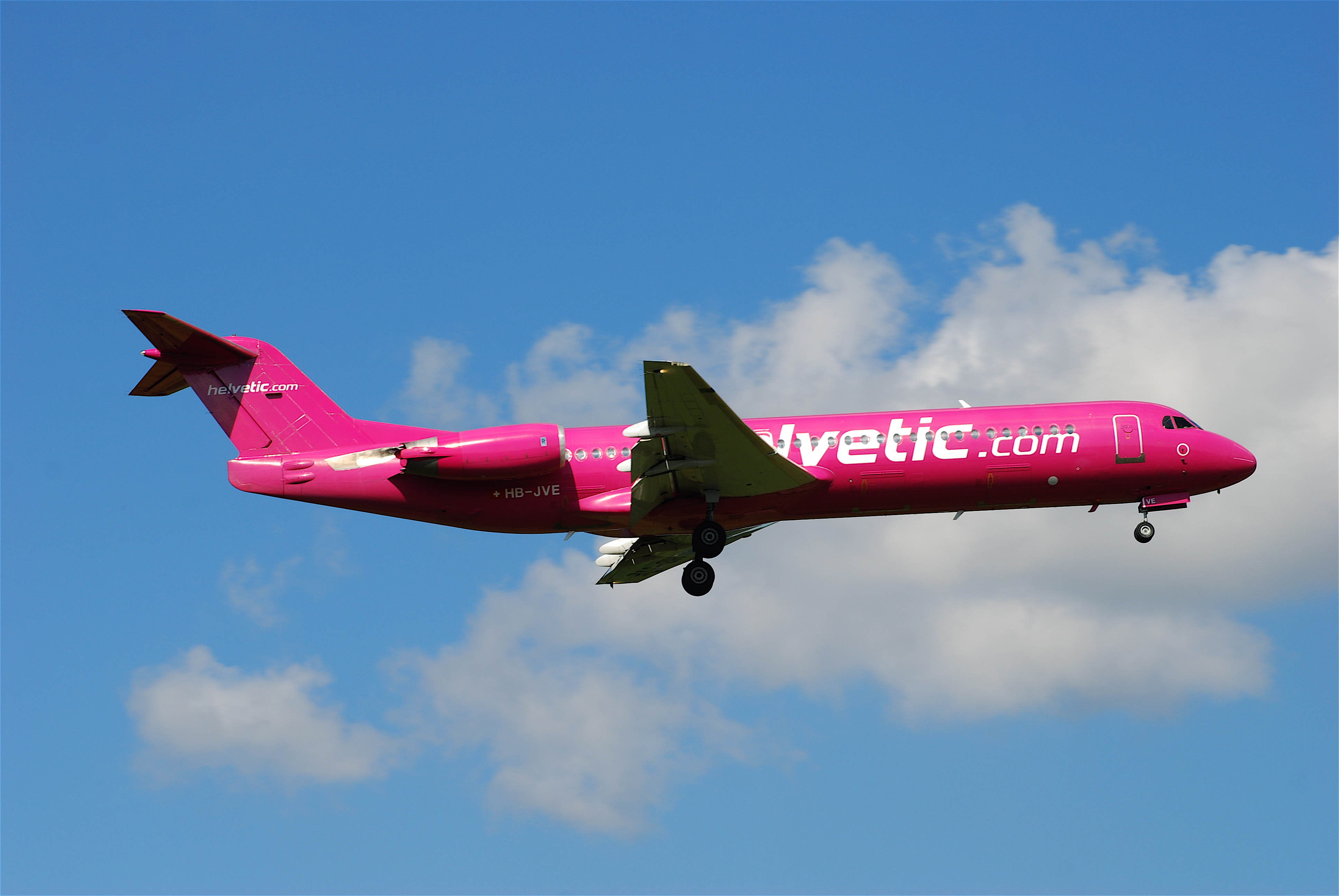 First flight: June 1, 1993...(c/n 11459) 30/06/1993 American Airlines N1450A 12/05/2004 Helvetic Airways HB-JVE